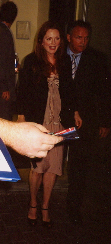 Julianne Moore at the premiere of Trust the Man, Toronto Film Festival 2005